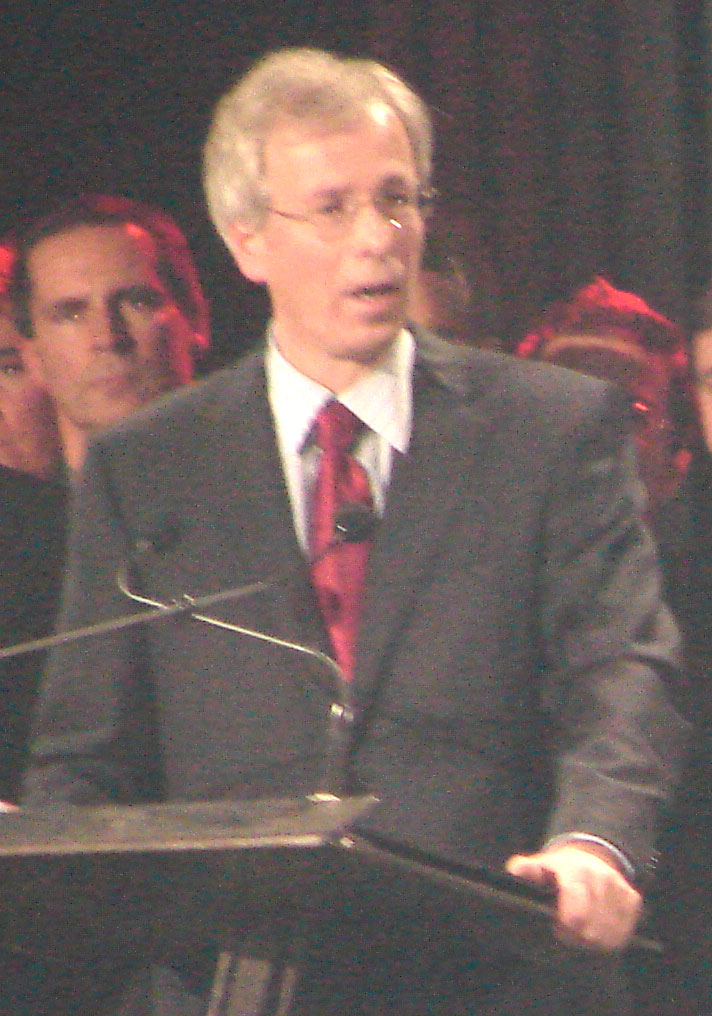 Stephane Dion, making a speech after winning the 2006 Liberal leadership race. Cropped version of original.